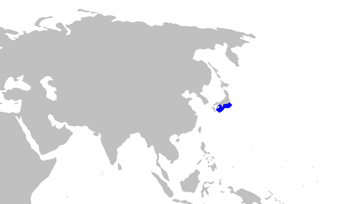 Distribution map for Galeus nipponensis